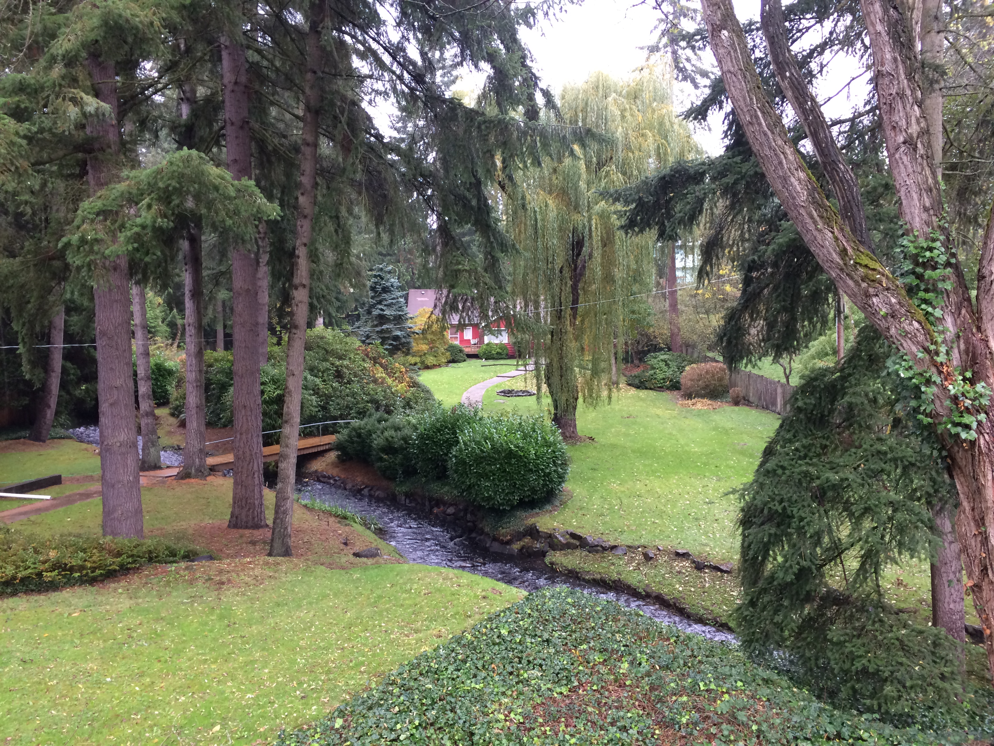 Thornton Creek, just before it passes under NE 125 St.